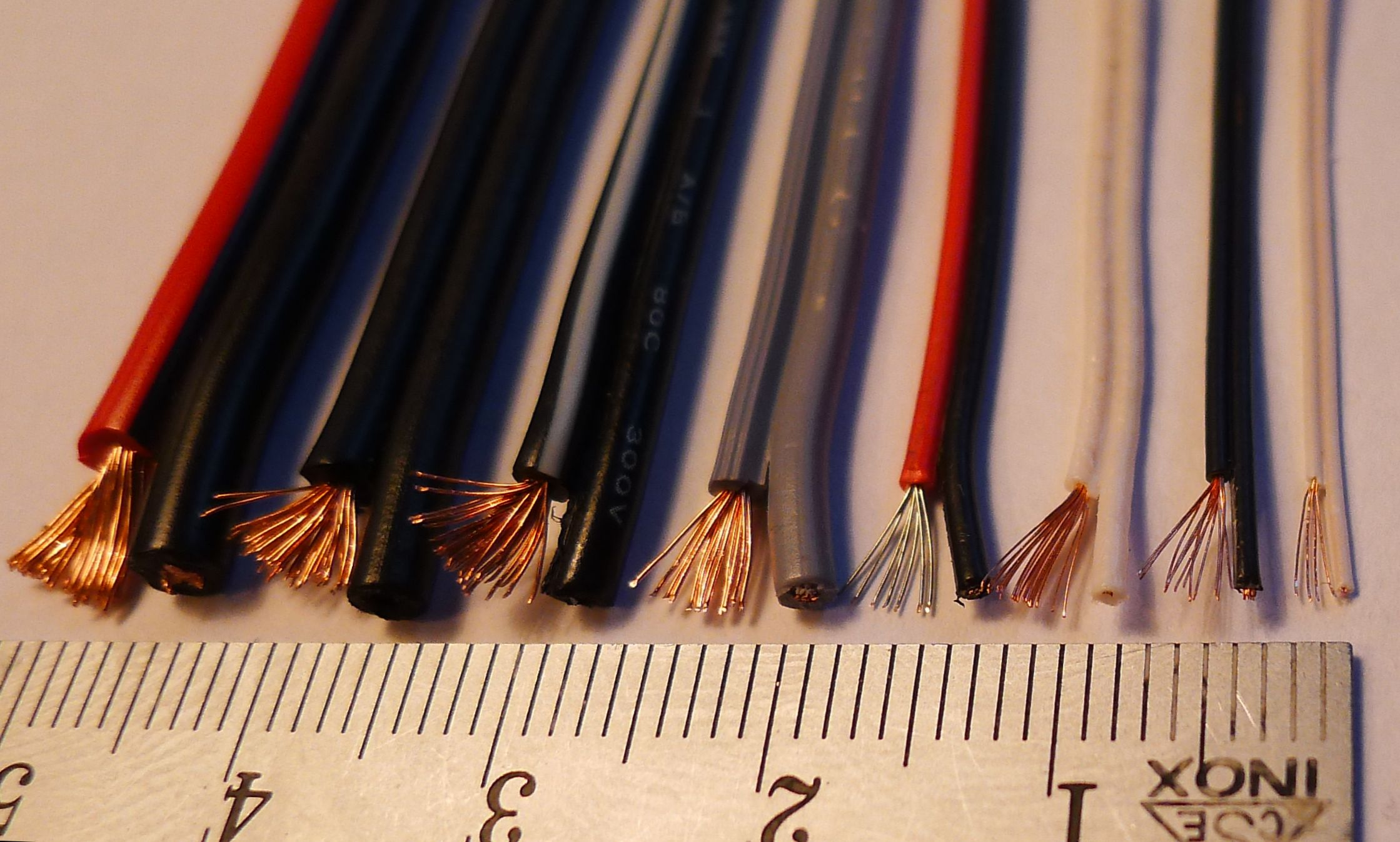 Stranded twin wire small to medium